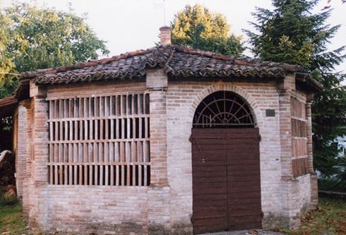 casello aiola